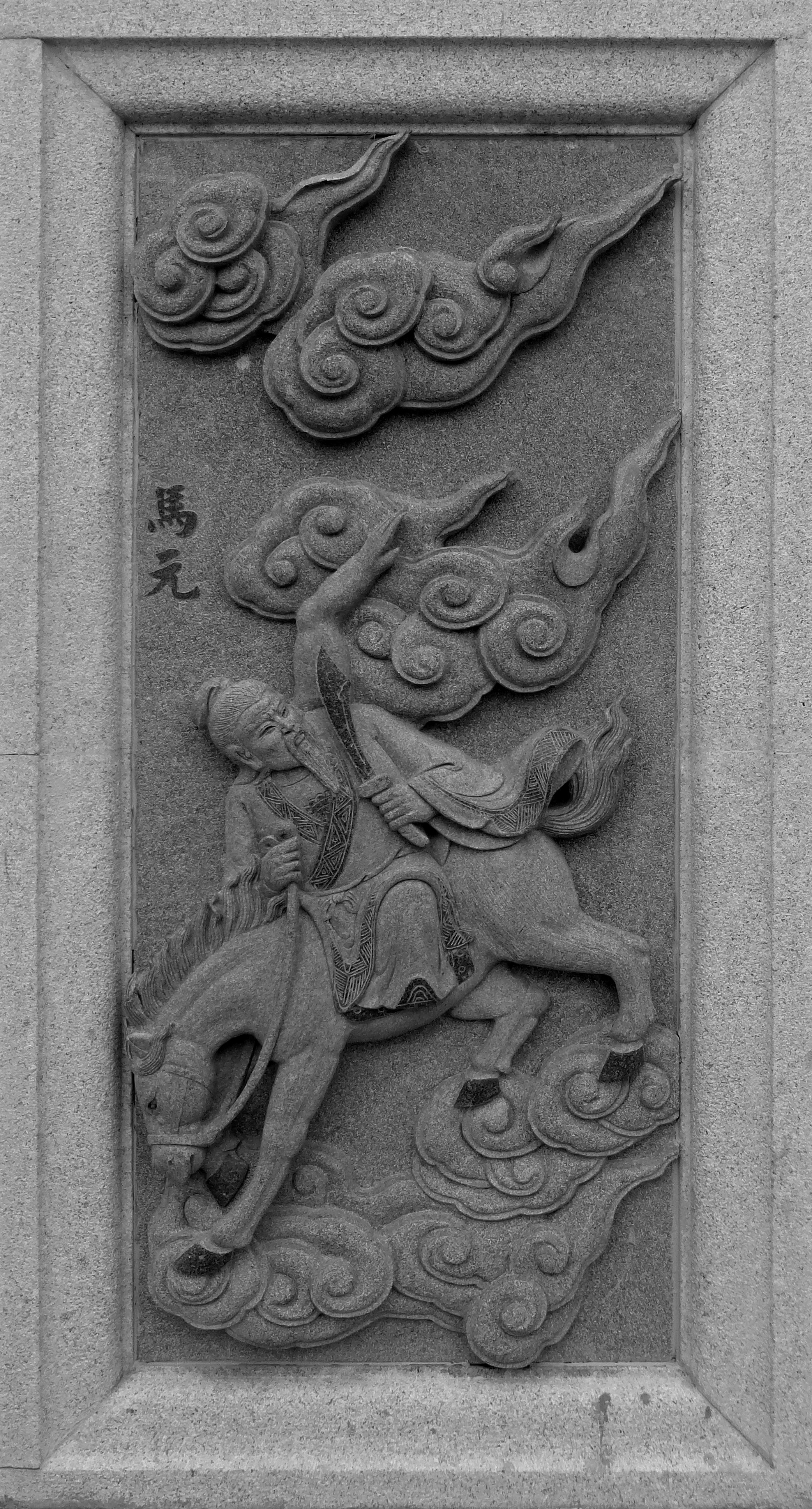 052 Ma Yuan, Investiture of the Gods at Ping Sien Si, Pasir Panjang, Perak, Malaysia Photograph from the Ping Sien Si Temple in Perak, Malaysia taken by Anandajoti.